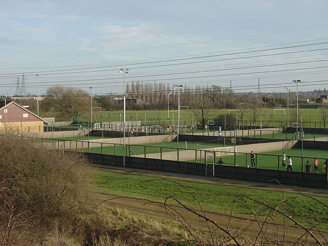 Power League Artificial surface 5-a-side football pitches on the Trent meadows.